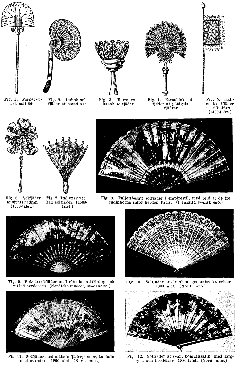 Paper fans